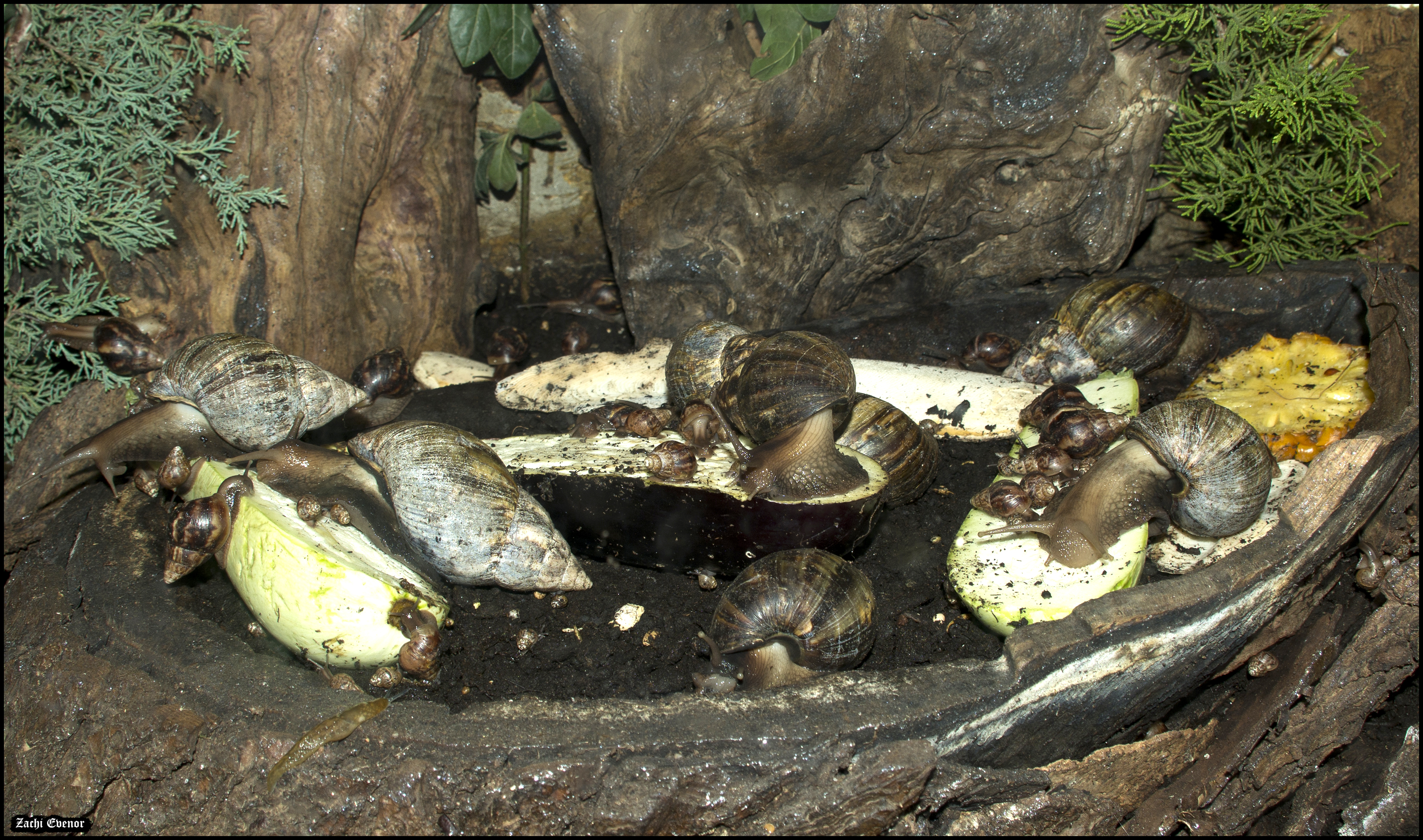 Giant African Snail - Achatina fulica, Jerusalem Biblical Zoo, Jerusalem, Israel